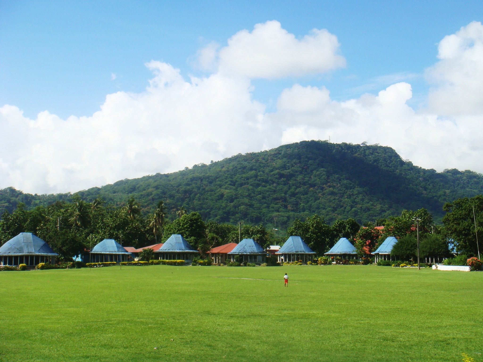 Round Samoan houses (fale tele) with blue roofs in Lepea village with Mt Vaea beyond, Upolu island, Samoa. Gagana Samoa: Fale tele i Lepea.